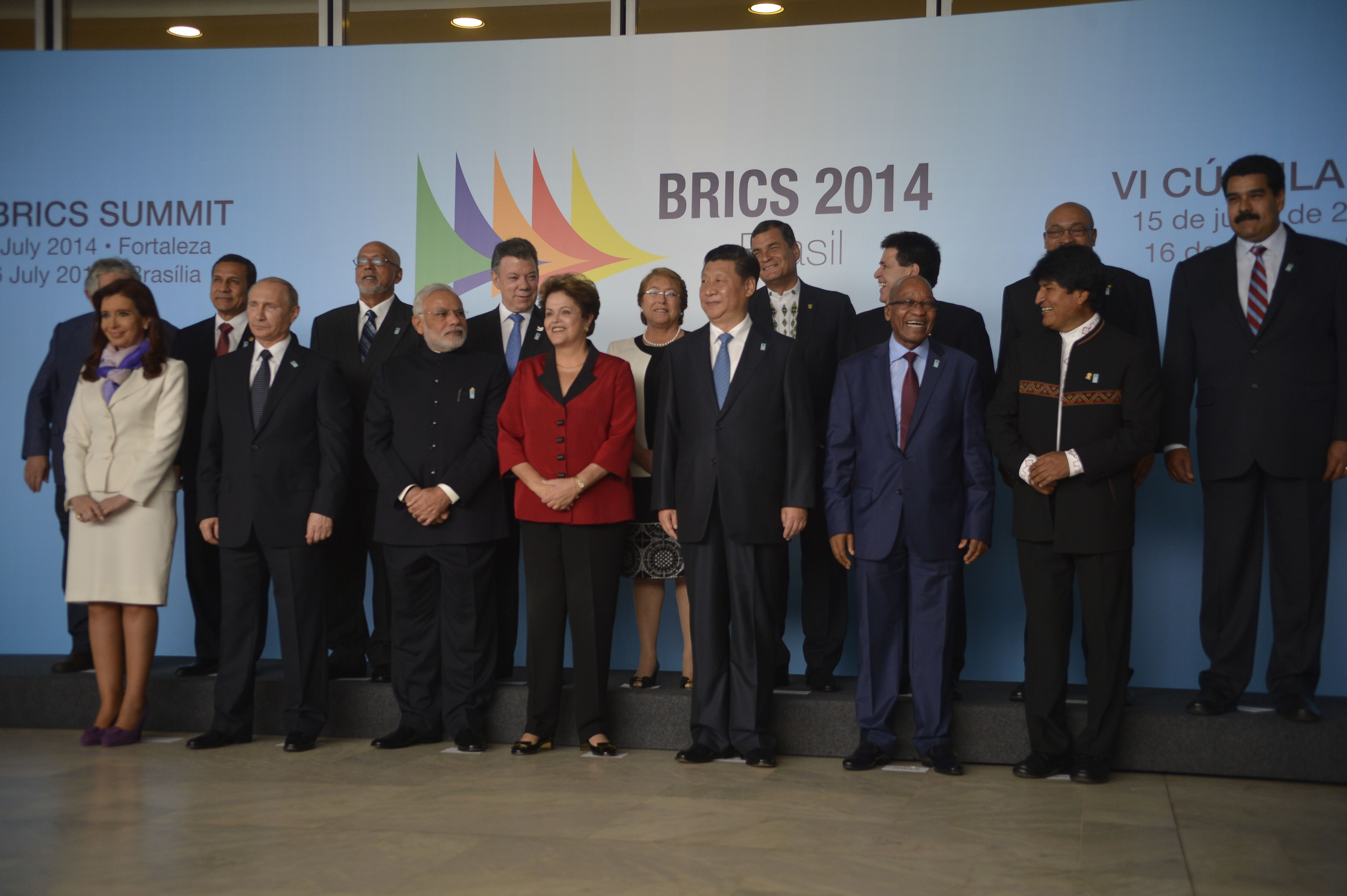 BRIC members and invited guests at the 6th BRICS summit 2014